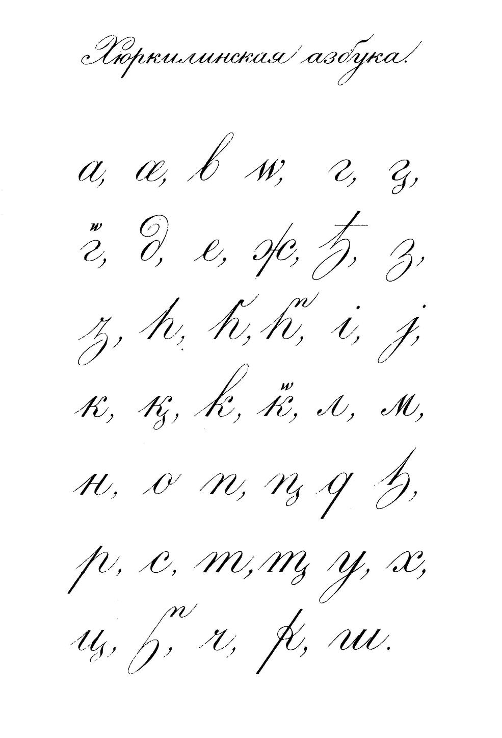 Alphabet from Peter Uslar's Dargwa Grammar (1892)